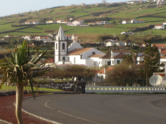 Coastal road, winding through Feteira, with the Church of the Divine Espírito Santo in the distance.